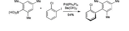 atropoisomero suzuki